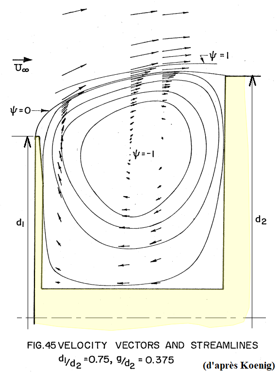 Flow downstream of a precursor disk for minimal Cd, according to Koenig. Thanks to this disk of diameter D_1 = 0,75 D_2 (placed at g = 0,375D_2 ) one can reduce the front body Cd of a cylinder presented axially from 0.7 to 0.01.